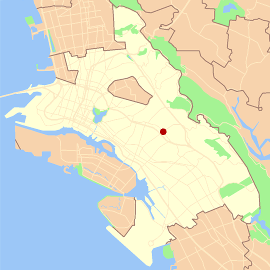 Map showing the location of Laurel in the city of Oakland, California. Created by User:Nogood using U.S. Census Bureau data.